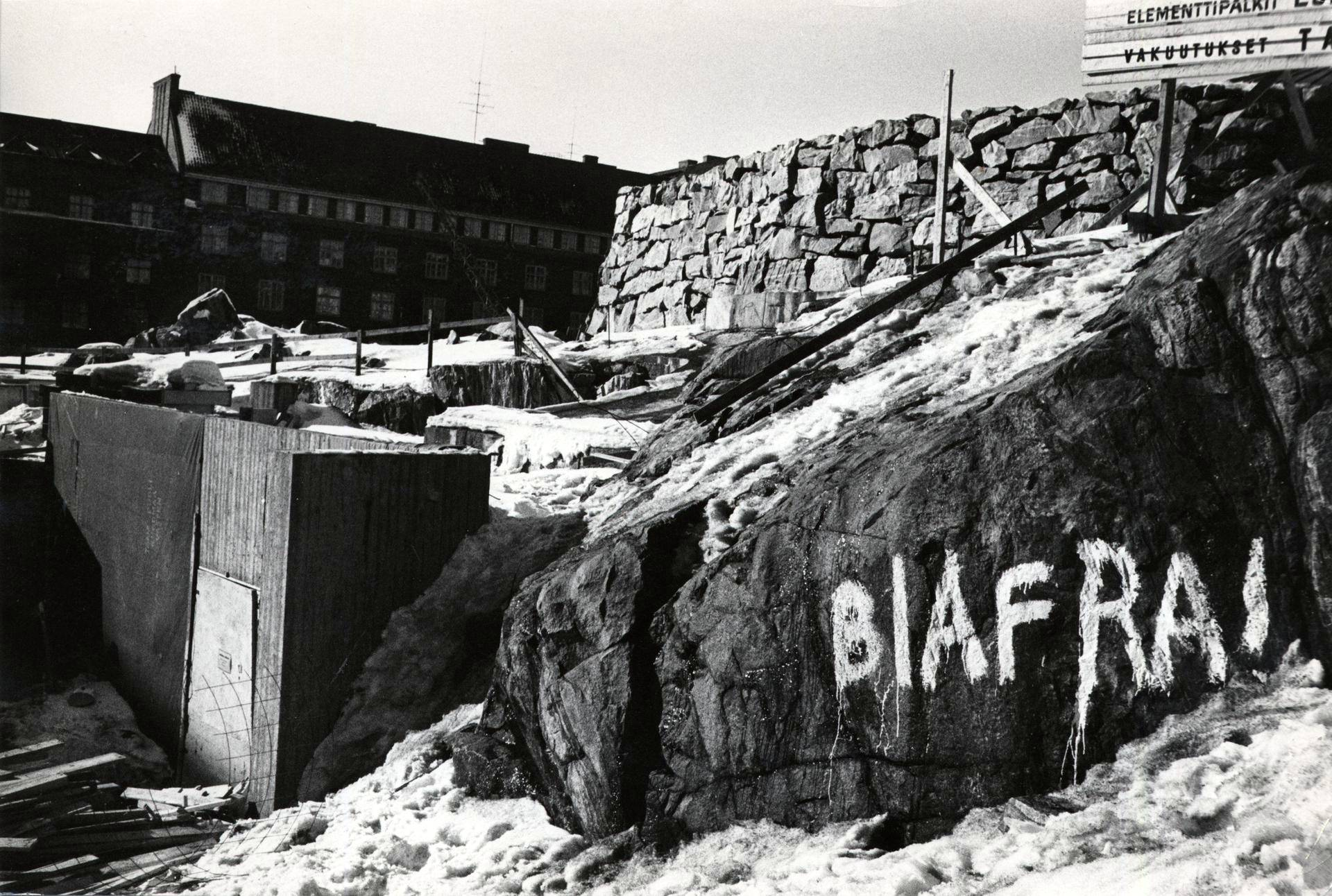 Photograph of a “Biafra” graffiti painted on the rock where the Temppeliaukio church was being built.